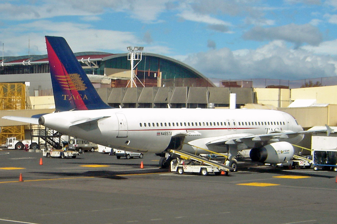 LACSA Airbus operating under Grupo TACA at the Juan Santamaria International Airport